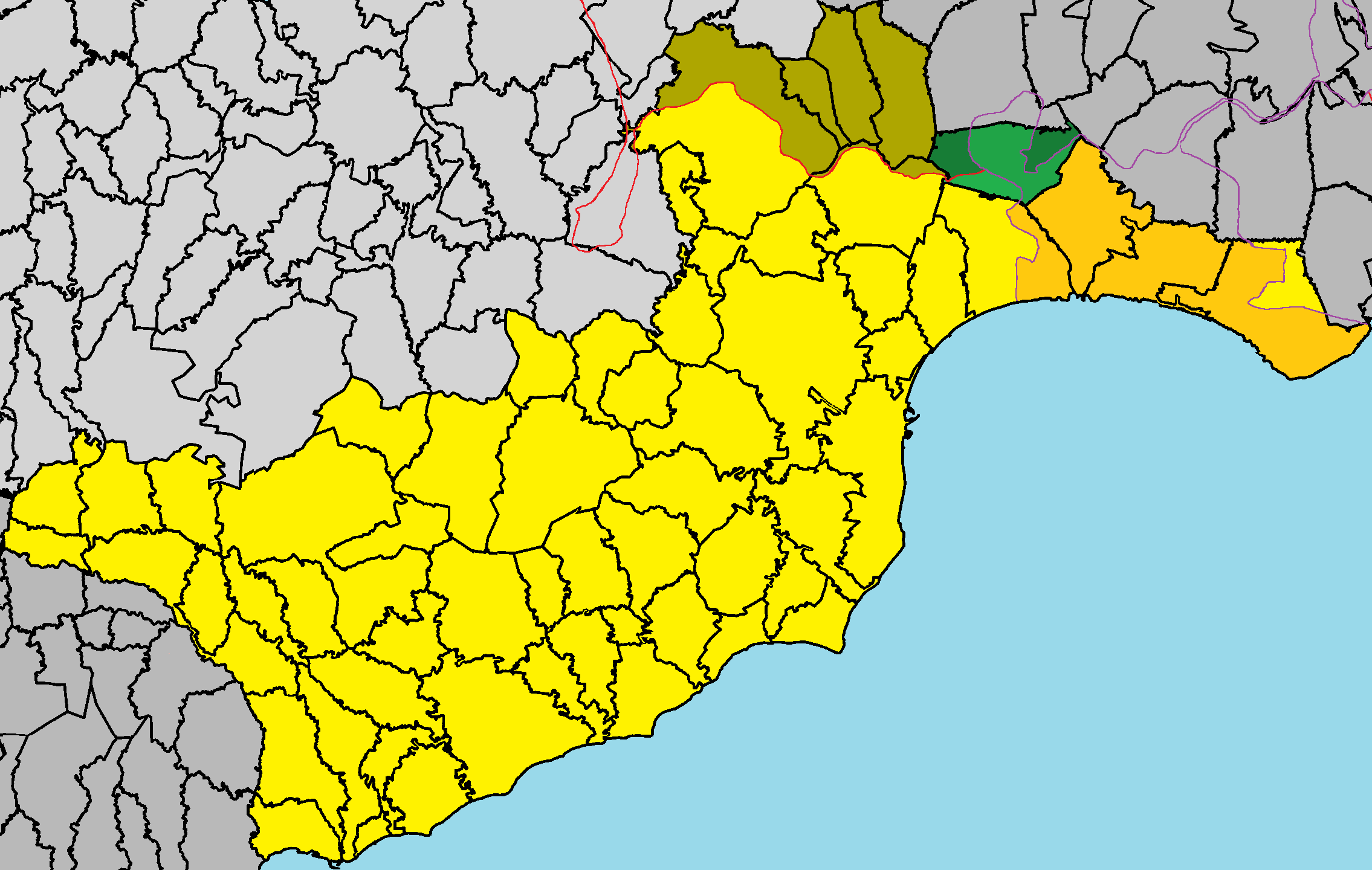 Pergamos in Larnaca District (de jure).